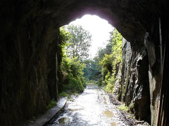 Railway tunnel near Pont Aberglaslyn. The old railway tunnel which has been closed since the 1970's. Recently re-opened to allow construction traffic for the rebuilding of the Welsh Highland Railway line to Beddgelert.